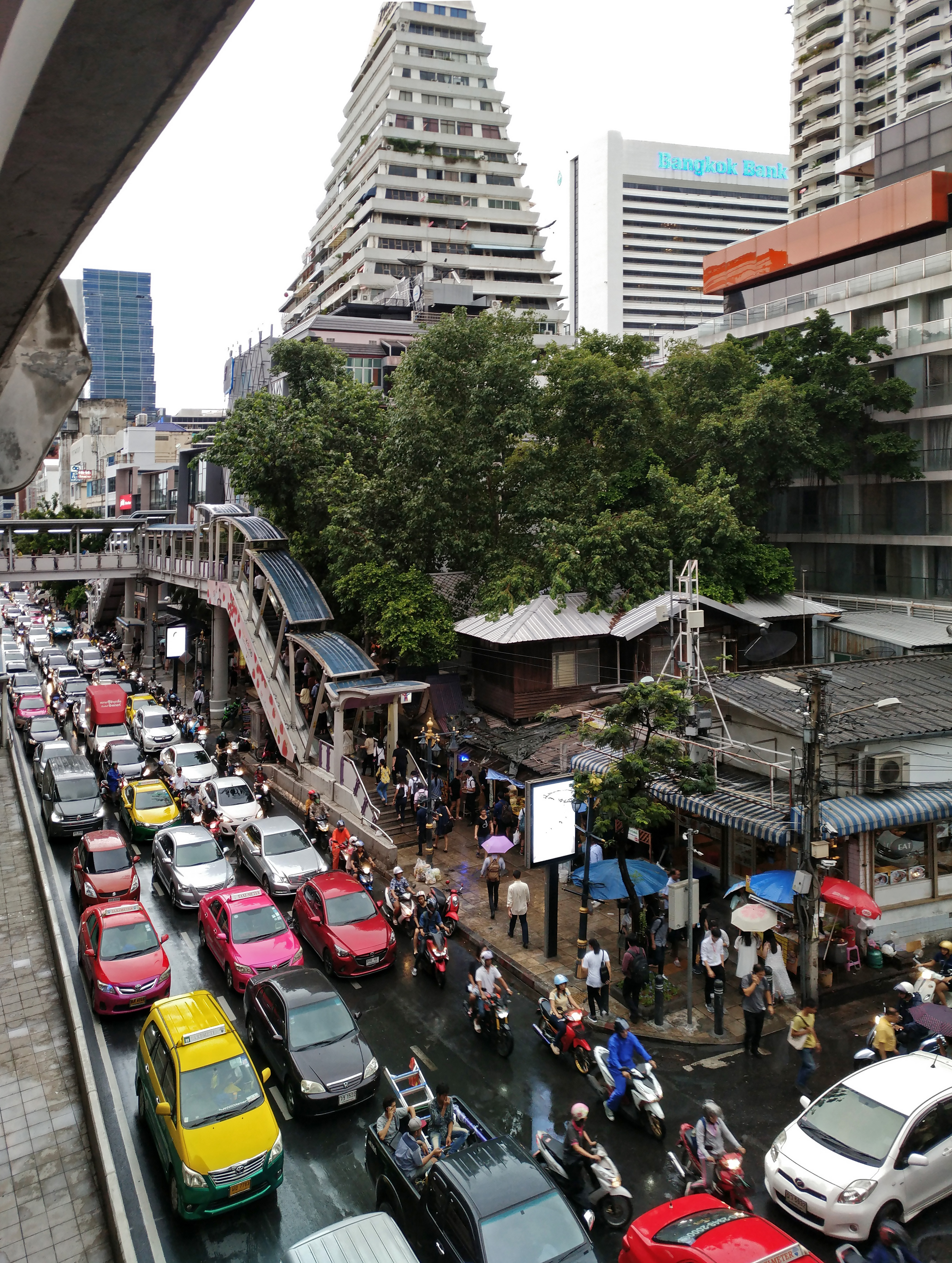 Traffic near Chong Nonsi BTS station 2018.Diamond apartment building in the center